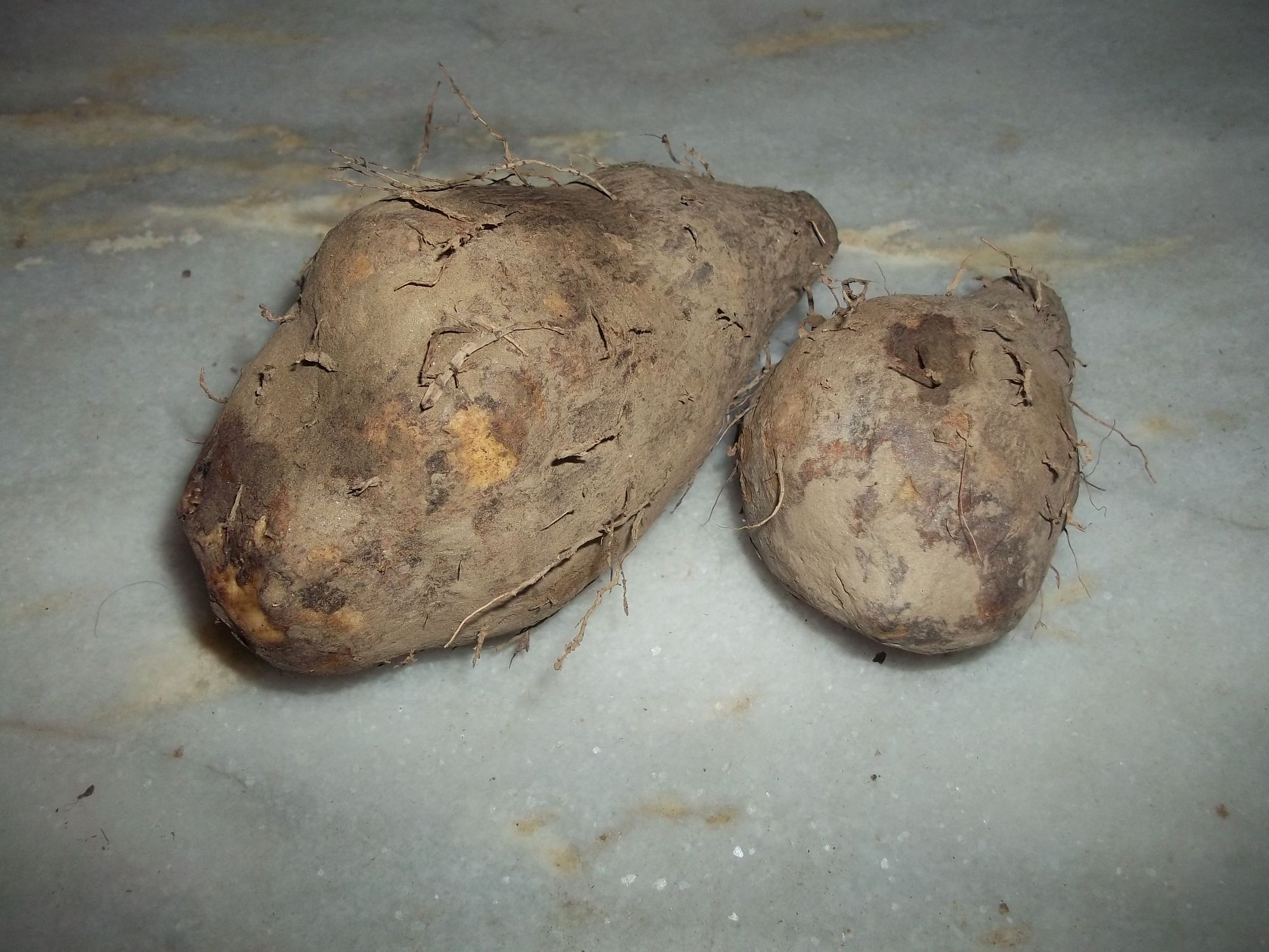 A type of yam with characteristic long hairs and yellowish sticky flesh.